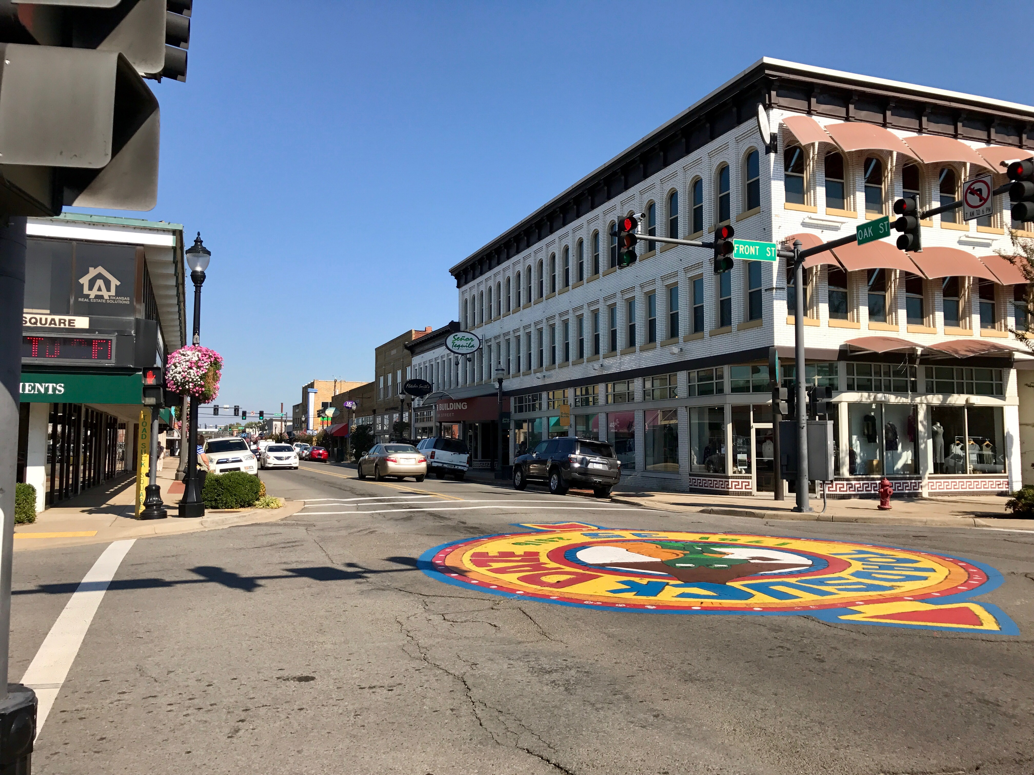 Conway's downtown at Toad Suck Square.